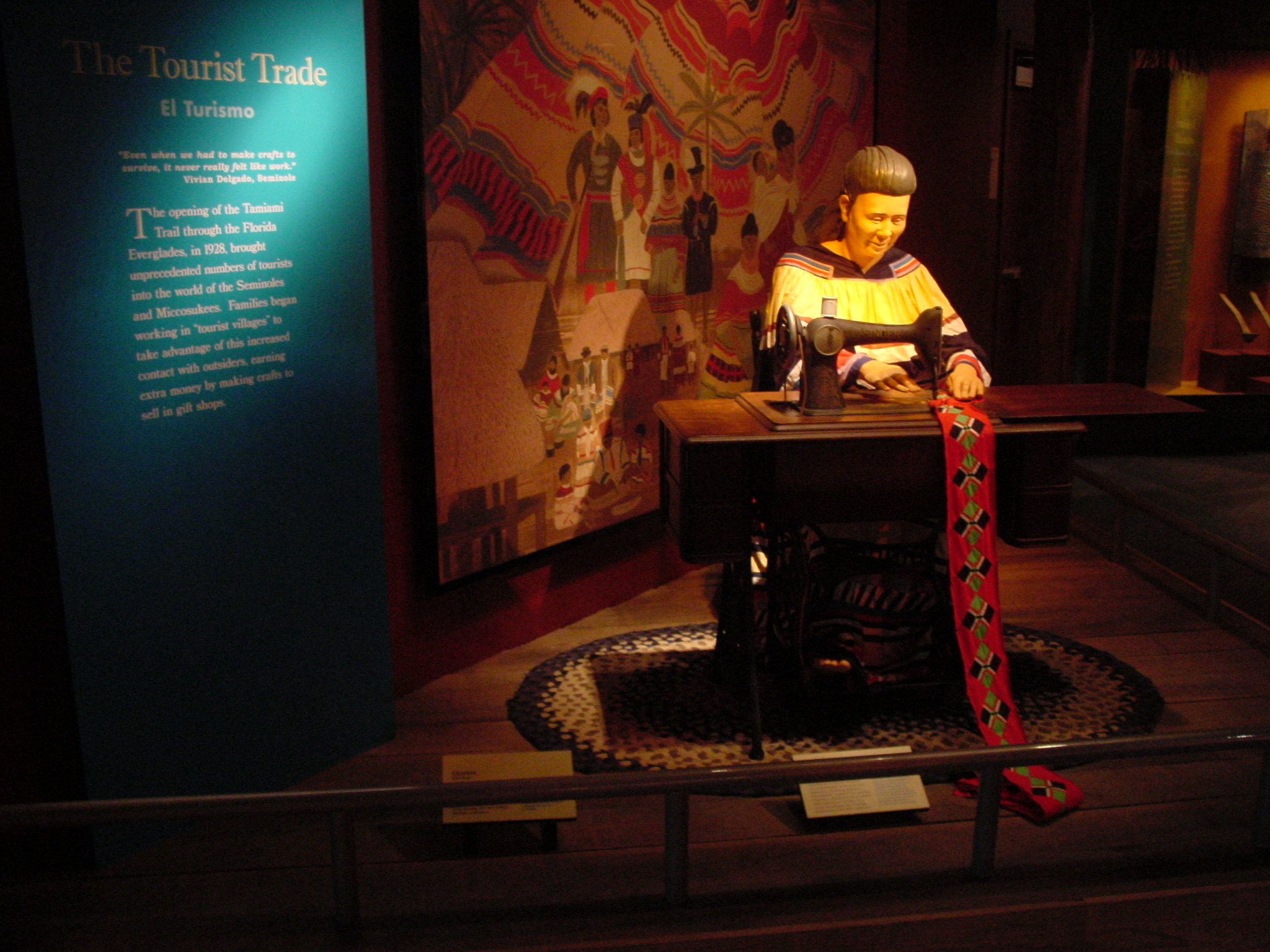 A part of the Seminoles and Miccosukees display at the Tampa Bay History Center in Tampa, Florida.